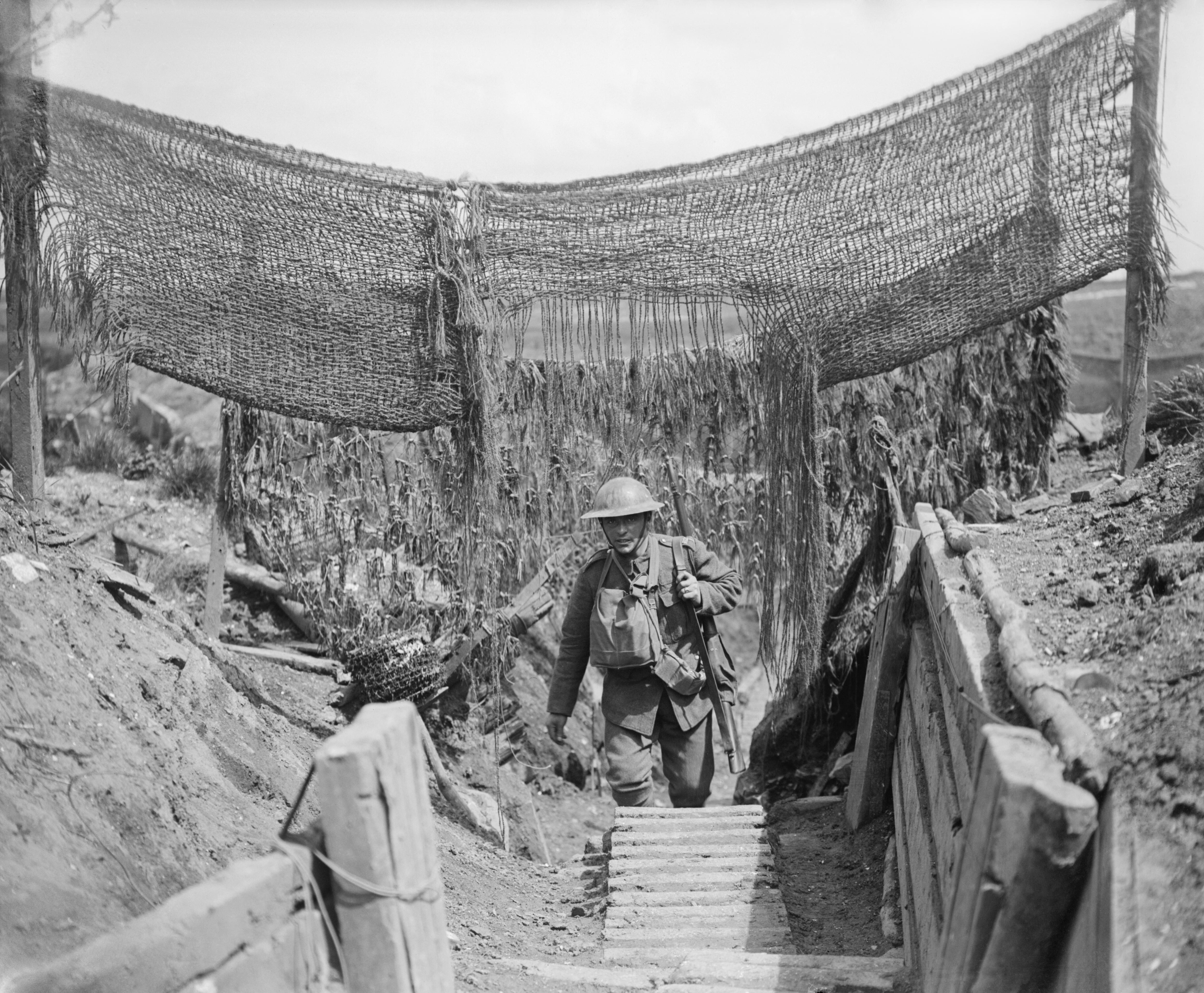 The German Spring Offensive, March-july 1918 Soldier of the 20th Light Division in a communication trench with camouflage netting to prevent enemy observation in front of Lens, 14 May 1918.